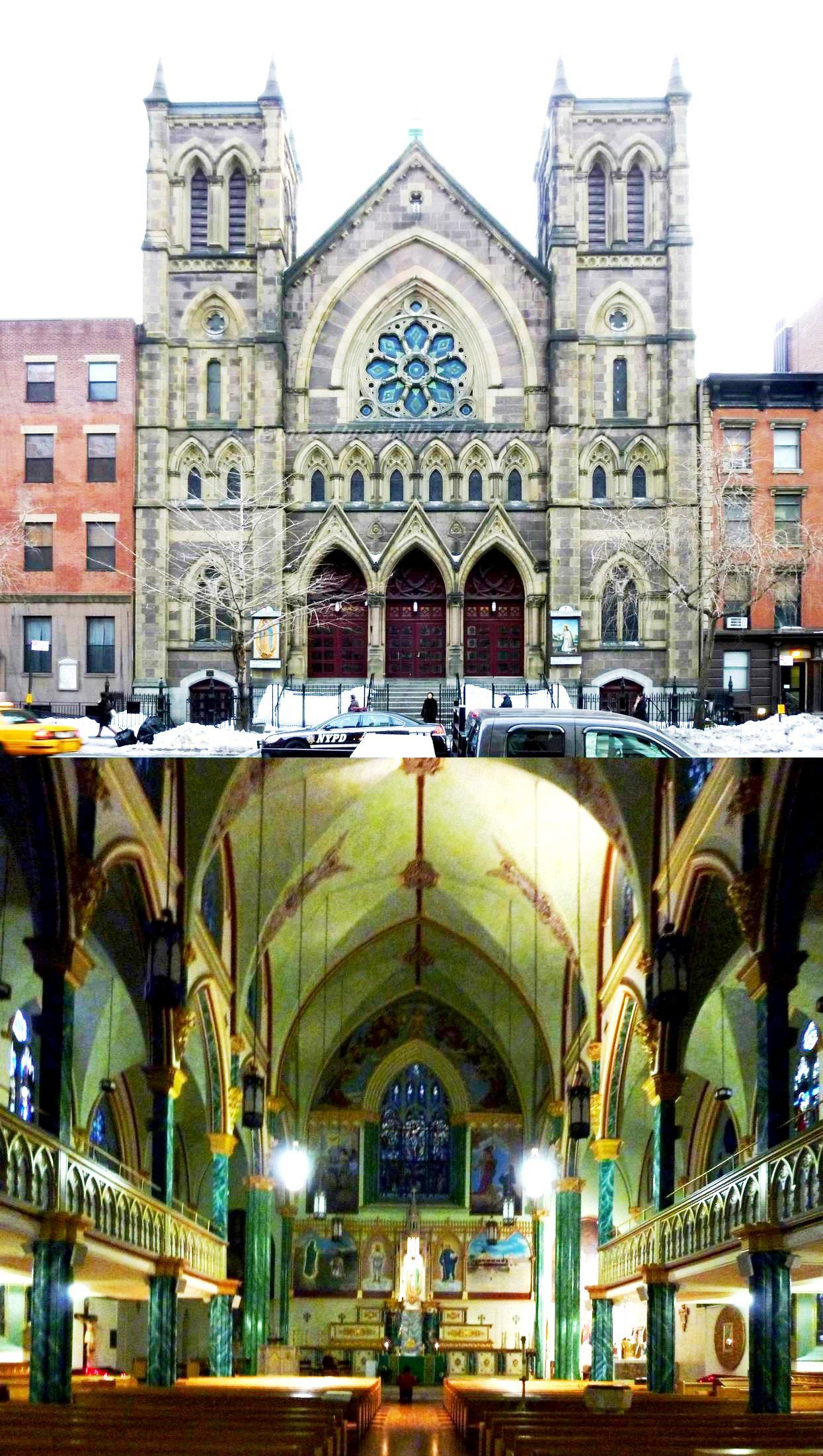 The Church of Our Lady of Guadalupe and St. Bernard is a Roman Catholic parish church in the Roman Catholic Archdiocese of New York, located at 328 West 14th Street, Manhattan, New York City. It was established in 2003 as a result of a parish merger of the Manhattan parishes of Our Lady of Guadalupe's Church (New York City) and St. Bernard's Church (New York City). The church was built 1873-1875 to the designs of Patrick C. Keely and was the first church consecrated by an American Cardinal, Archbishop of New York John McCloskey.Once considered one of the most important parishes in the city, the congregation at the time of erection consisted of mostly Irish immigrants and their descendants.